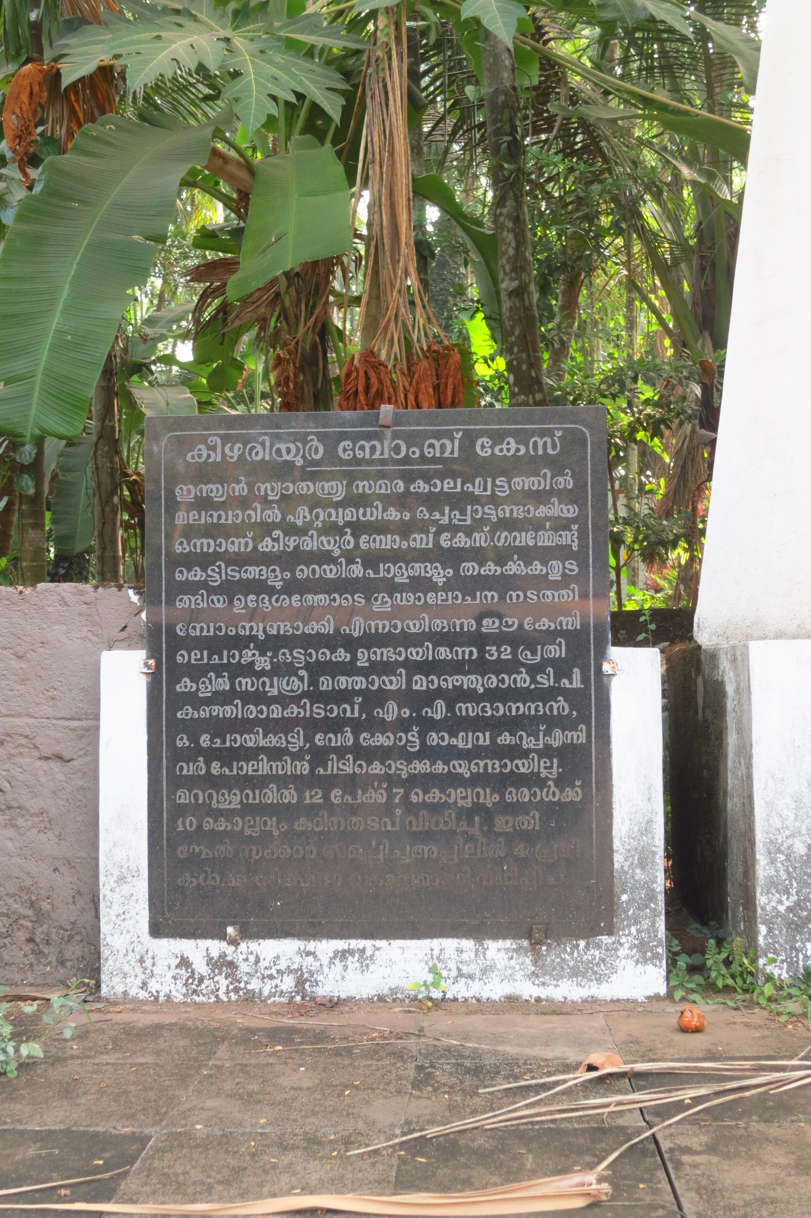 Keezhariyoor